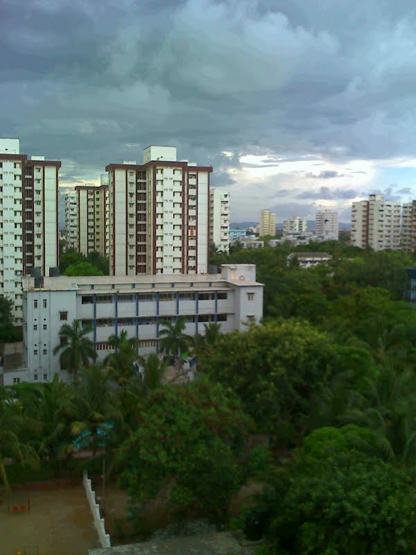 Cody 09XE